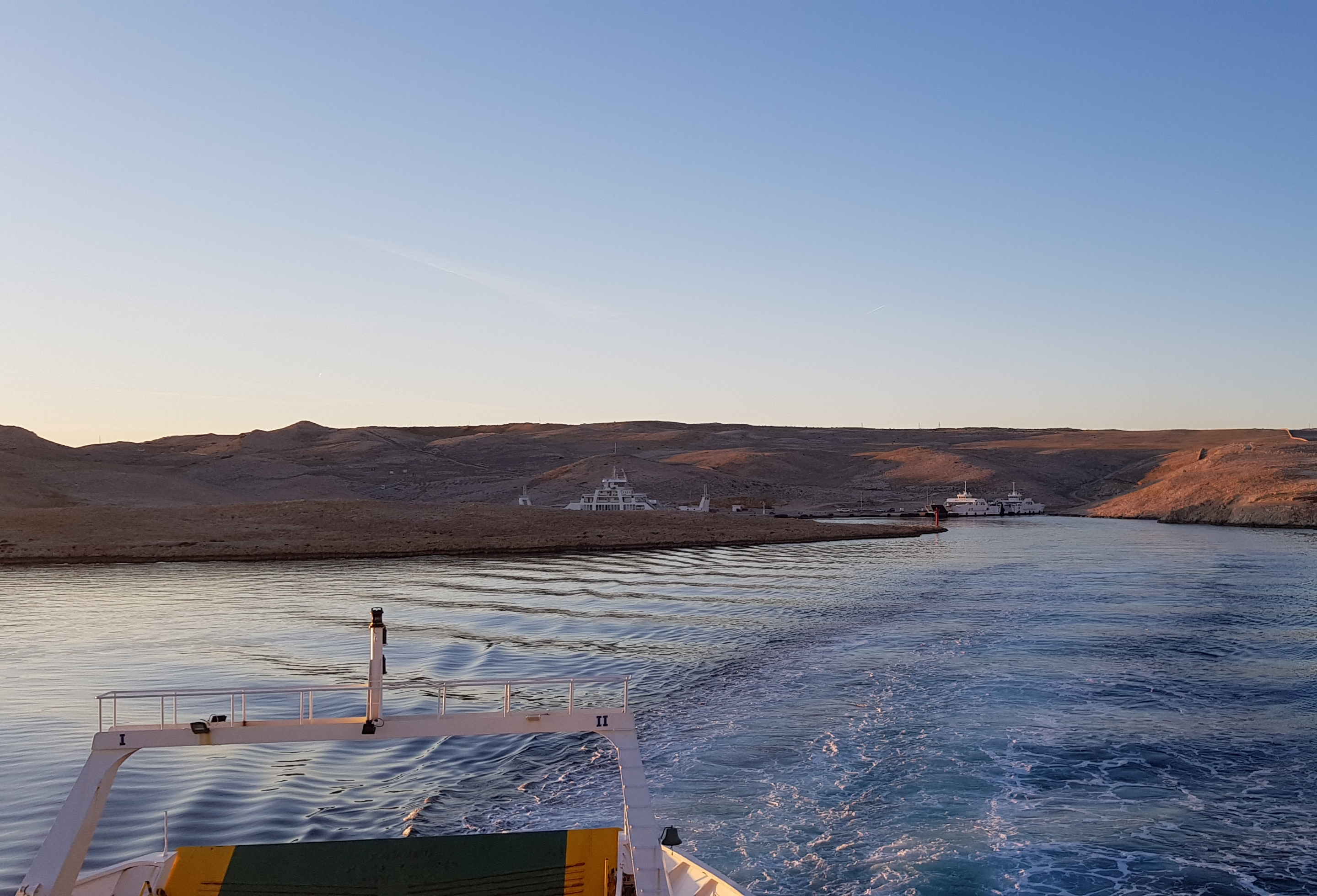 Port of Mišnjak from southeast